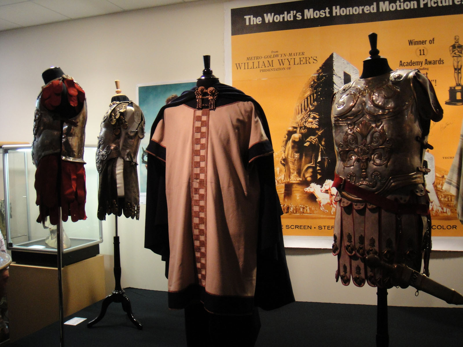 Costumes from the film Ben Hur at the Debbie Reynolds Auction Breaks Up Historic Hollywood Collection (The Paley Center for Media in Beverly Hills, Los Angeles, CA, USA). On the foreground: Costume worn by Charlton Heston as Judah Ben-Hur and costume worn by Stephen Boyd as Messala.